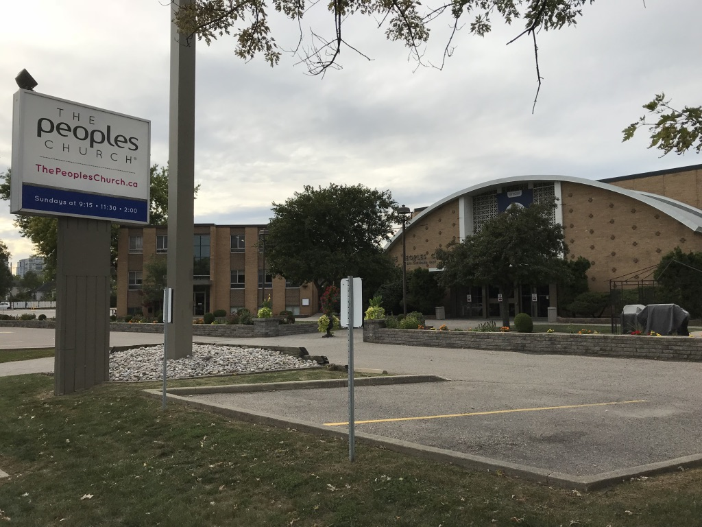 The Peoples Church Toronto building